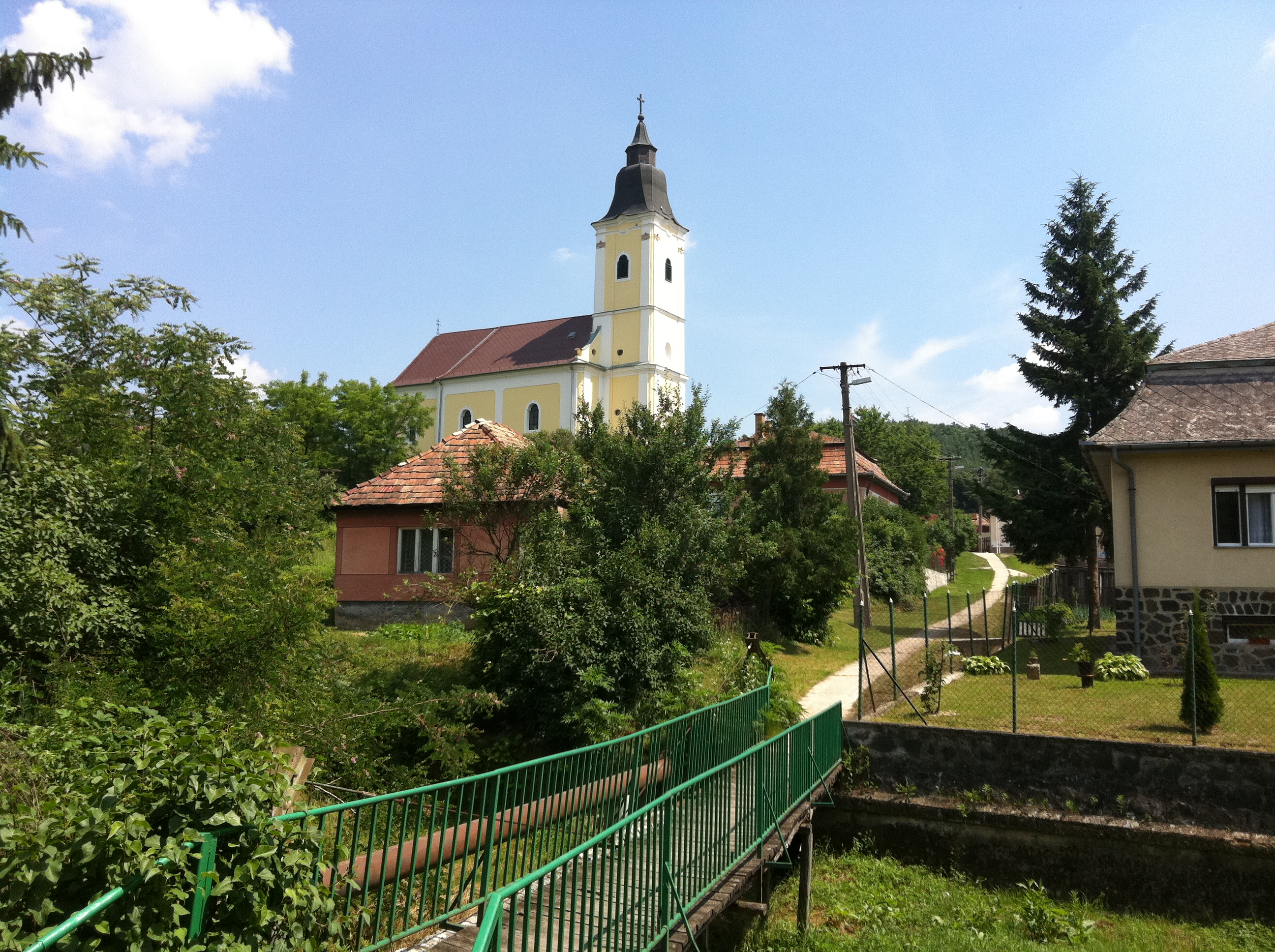 Karancsberény, Hungary. View of the church from Tanács Street.